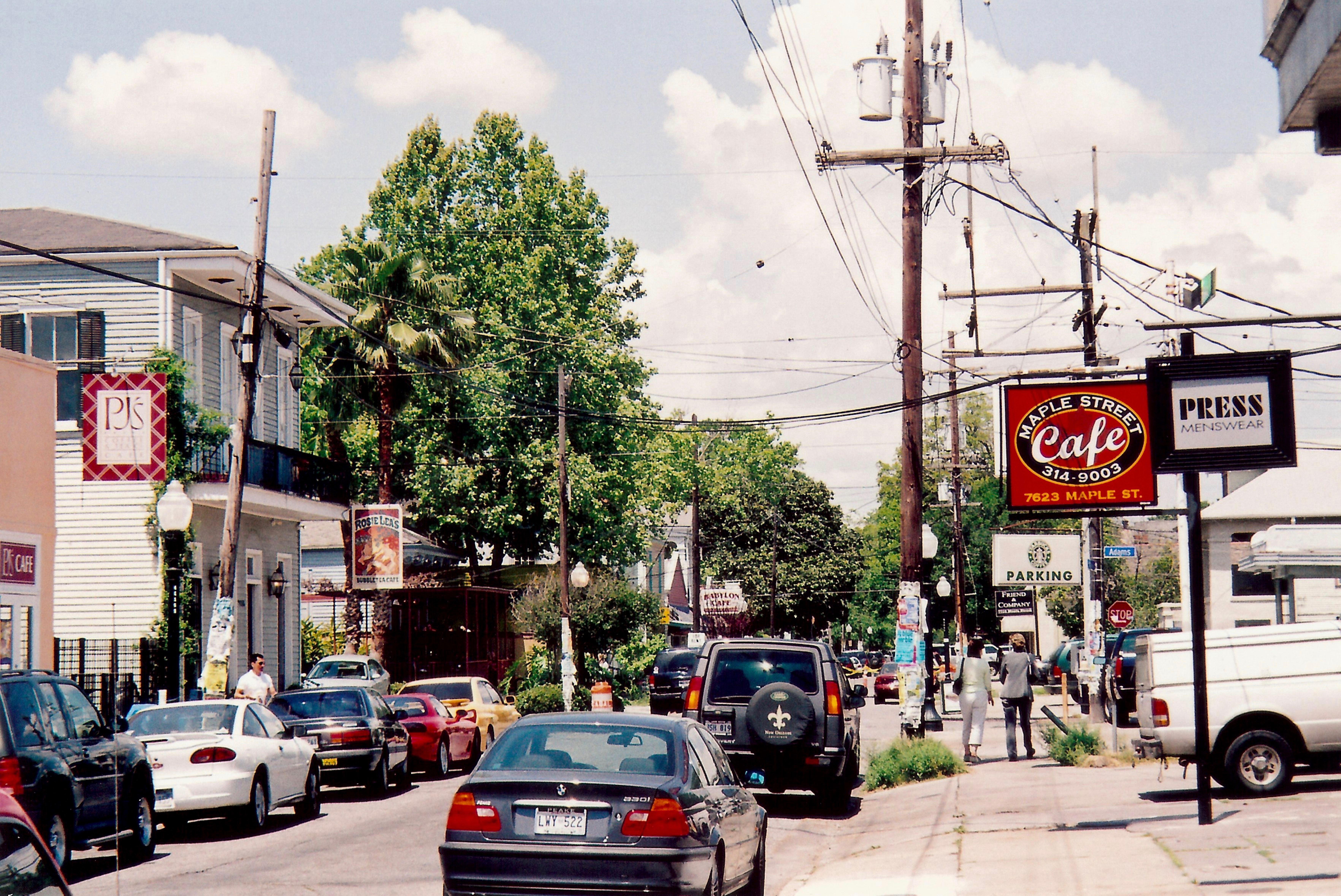 View of a section of the Maple Street commercial District, Carrollton section of New Orleans, April, 2005. Looking upriver on the 7600 block. Related photo: Image:CarrolltonMapleStCafe6Jan08.jpg, same block, looking down river Photo by Infrogmation